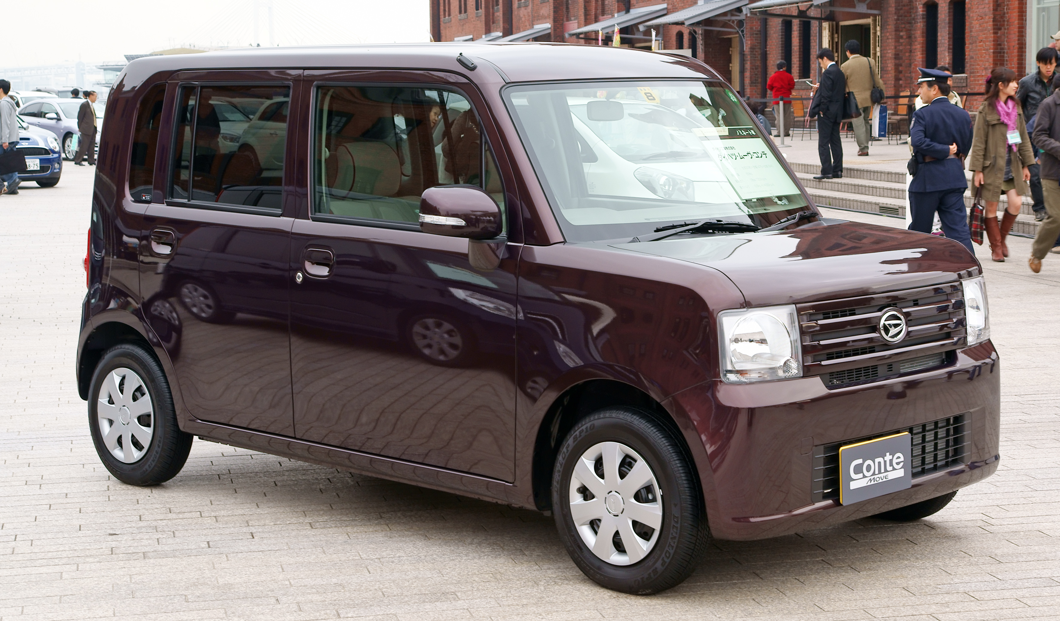 Daihatsu Move Conte photographed in Yokohama Red Brick Warehouse